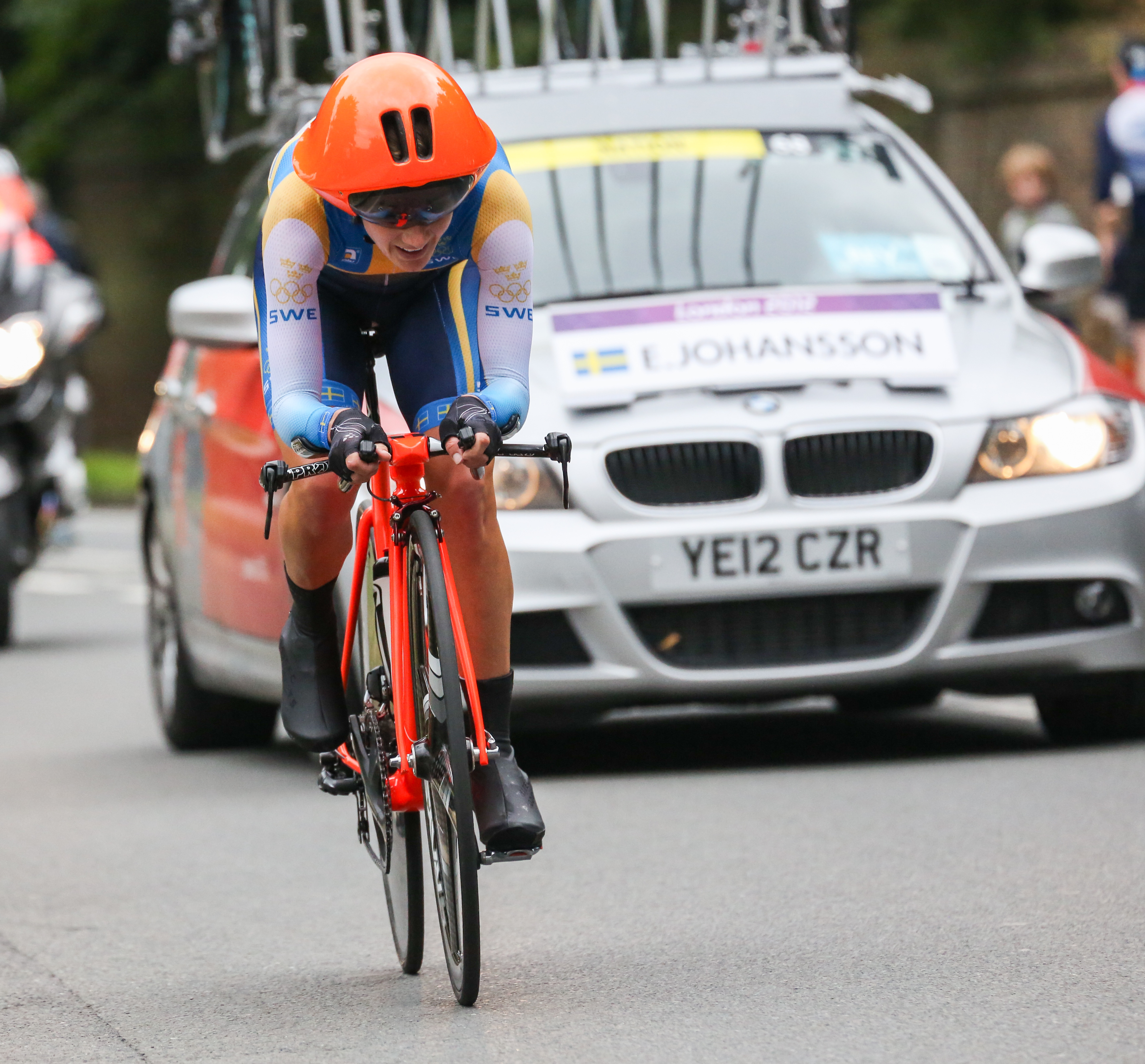 Emma Johansson competing in the London 2012 Women's Olympic Time Trial.